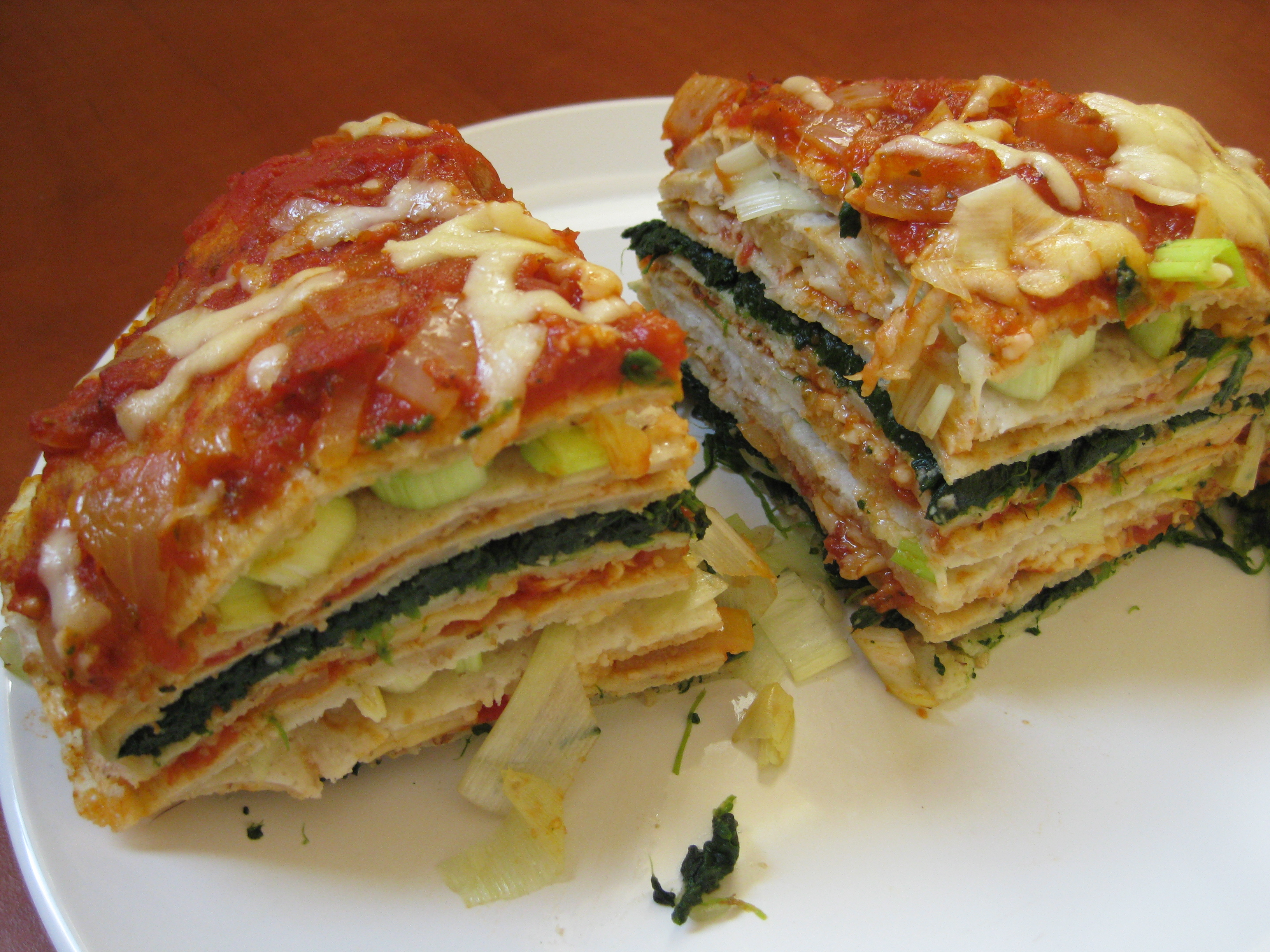 Pancakes with vegetables